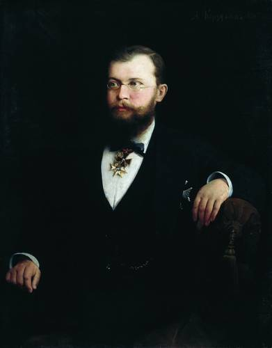 Alexey Korzukhin (1835-1894) Portrait of the A.M. Sibiryakov